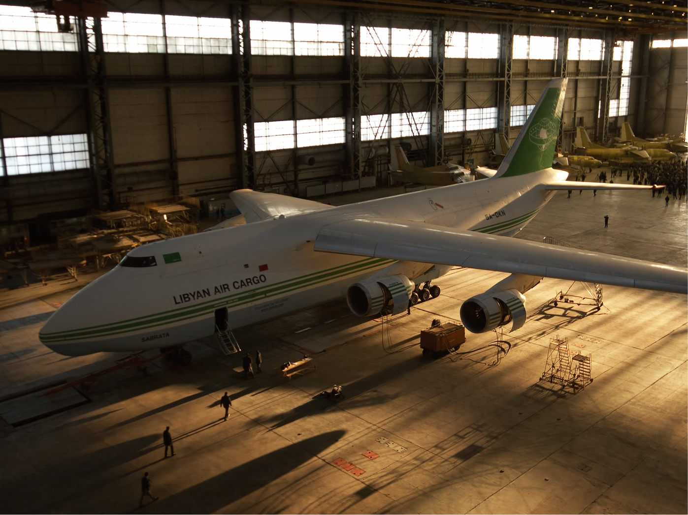 Libyan Air Cargo Antonov An-124 at the factory in Svyatoshino, Kiev.